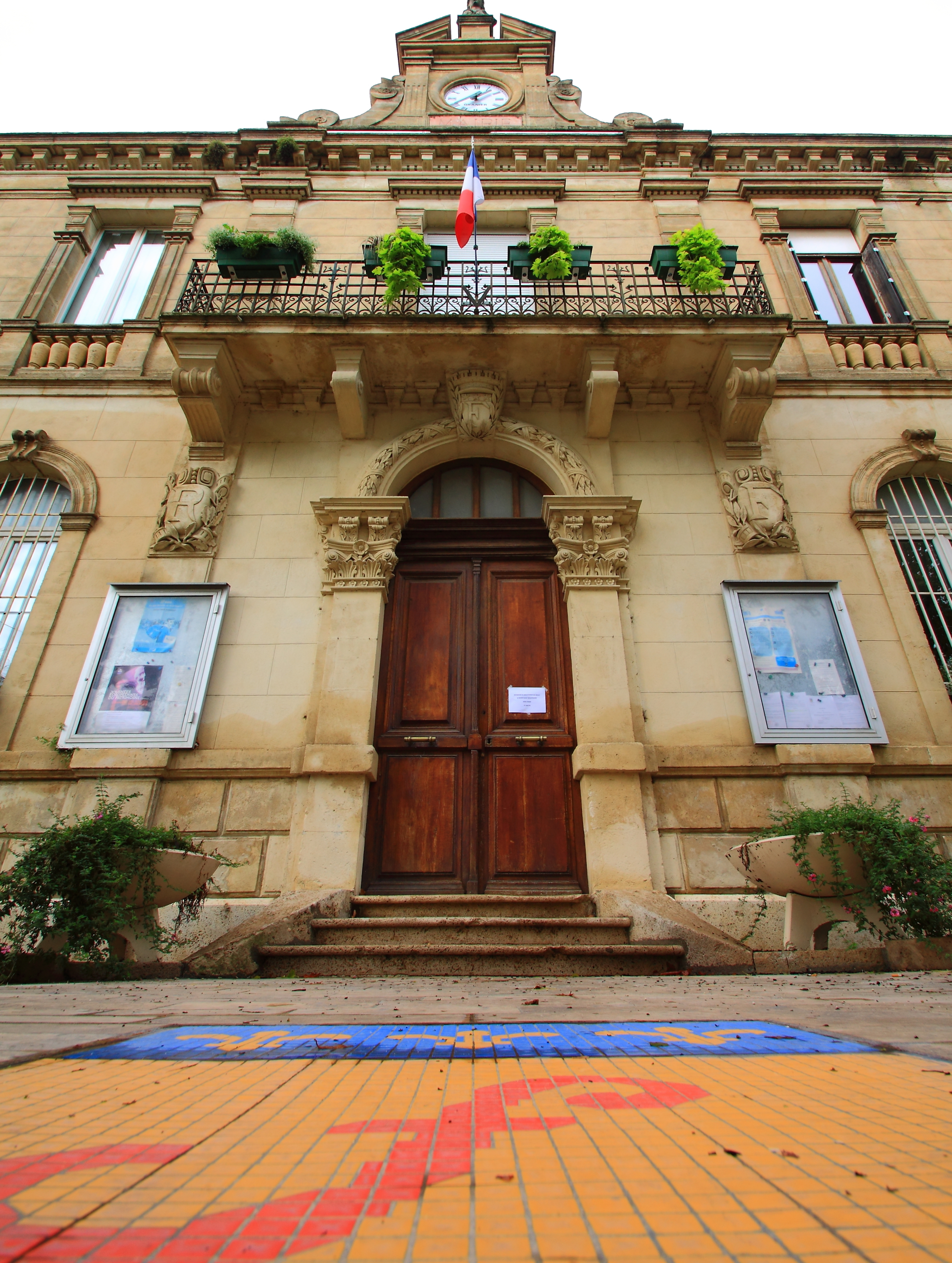 the townhouse of fabrezan